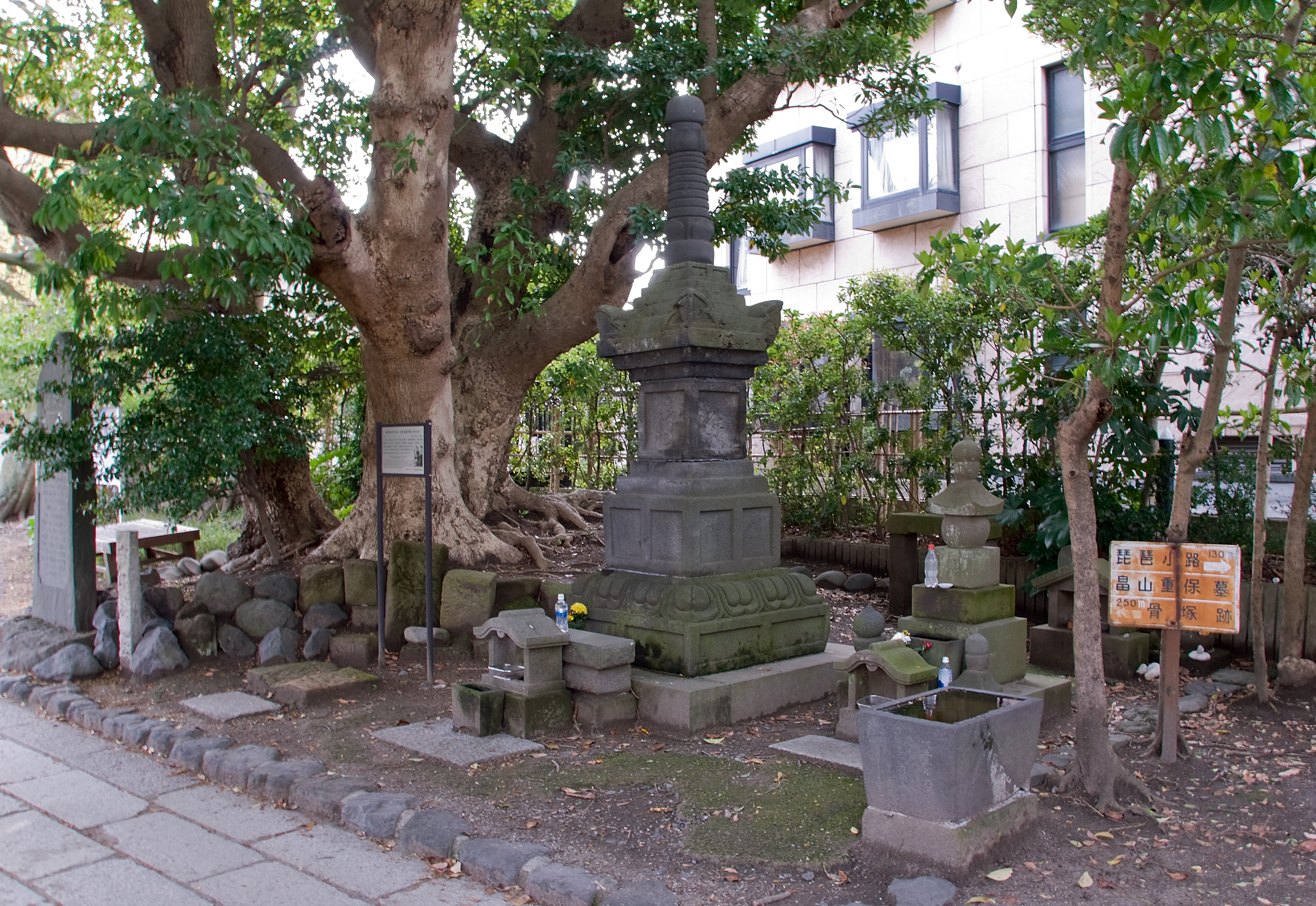 Hatakeyama Shigeyasu's Tomb in Kamakura, Kanagawa